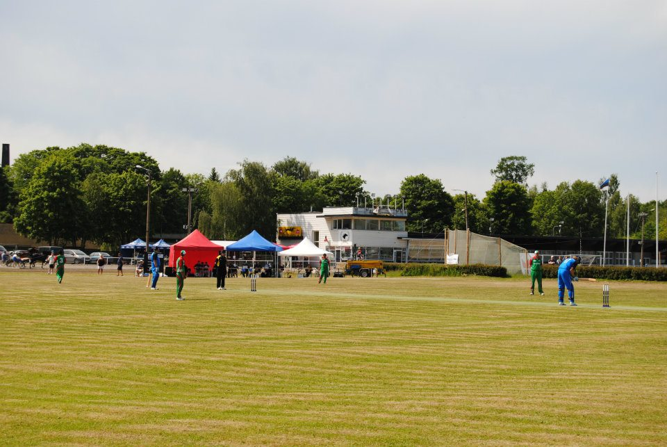 ICC Event 2012 Tallinn, Hippodroom